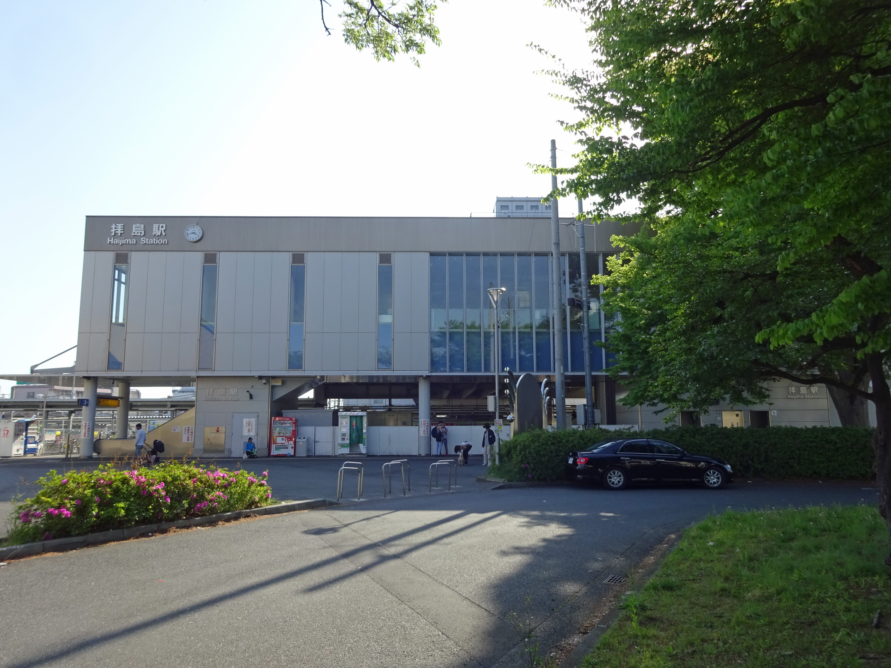 North entrance of Haijima Station